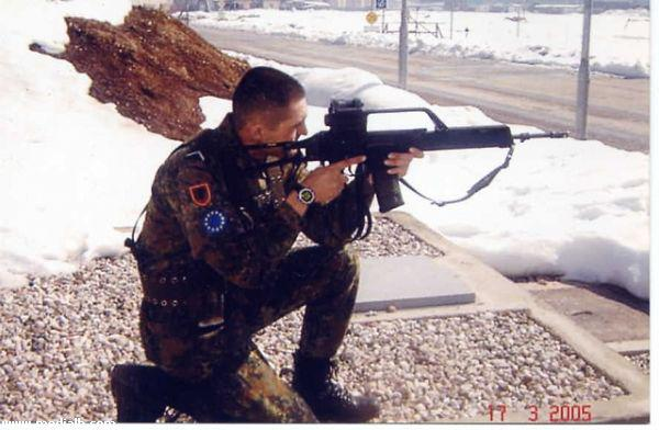 An Albanian soldier with a G36 in Bosnia as part of Operation ALTHEA